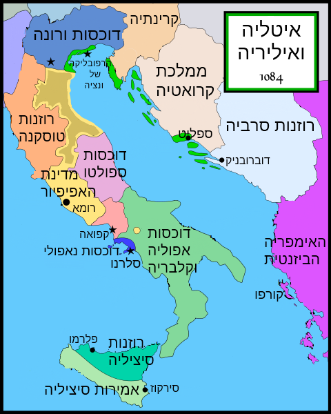 hebrew vertion of File:Italien och Illyrien 1084.png